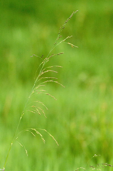 Picture taken in Commanster, Belgian High Ardennes . Species: Milium effusum